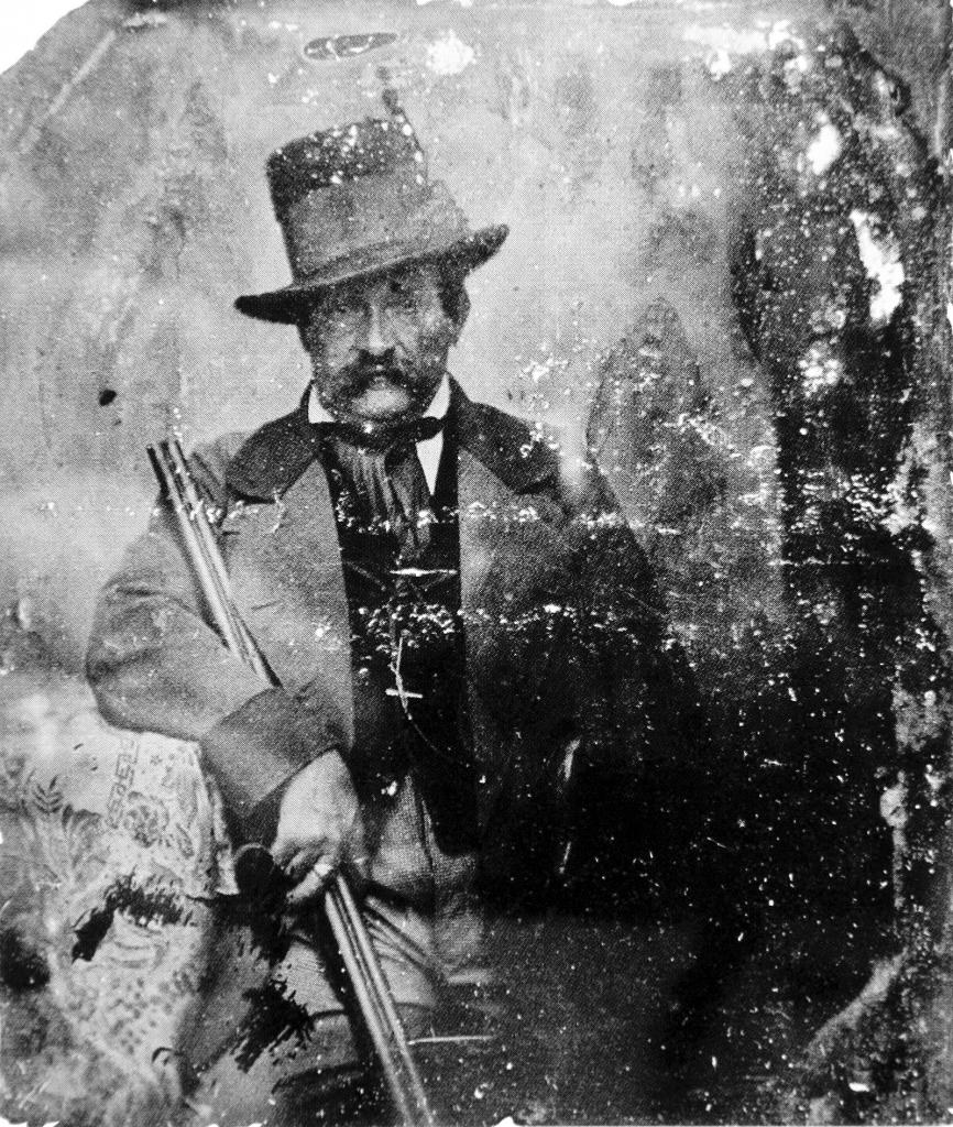 A portrait of a man" (his brother-in-law) hyalotype